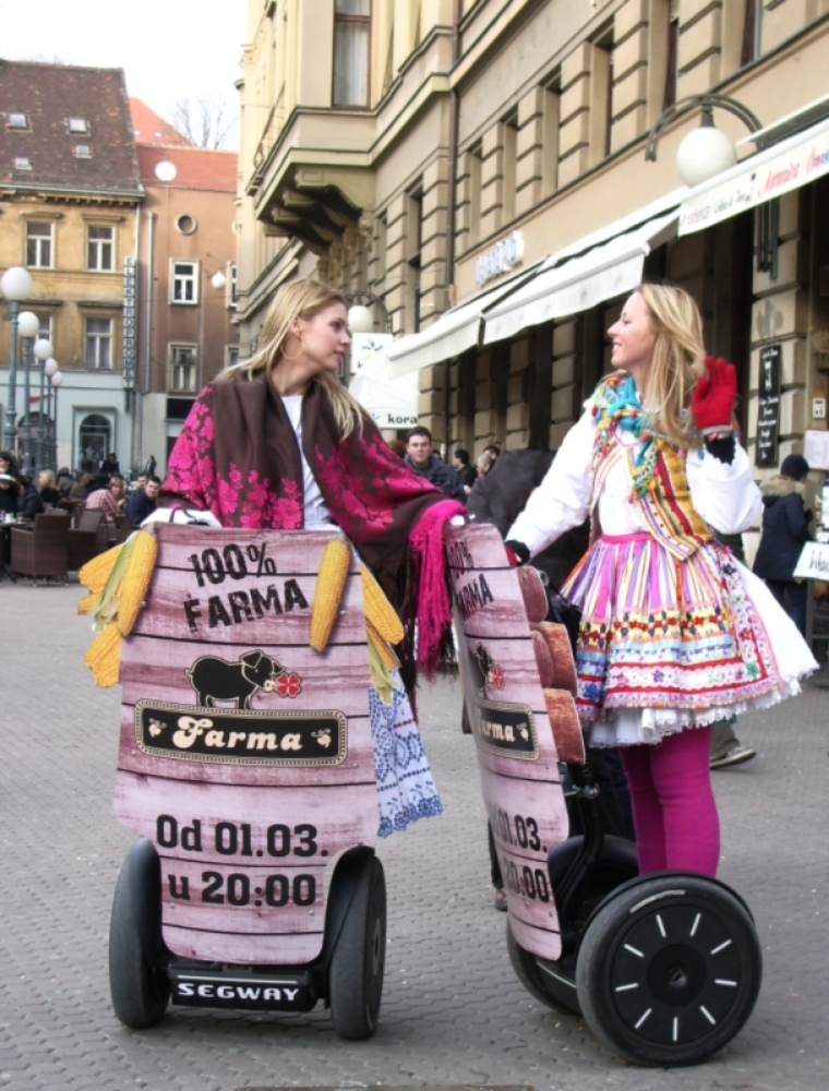 Two young women dressed in Hrvatski national costume and riding on Segways in the Flower Market in Zagreb to promote Farma, a Croatian reality TV show.